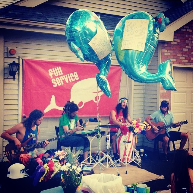 Full Service playing at a fan's house as part of a 20 Tour show.